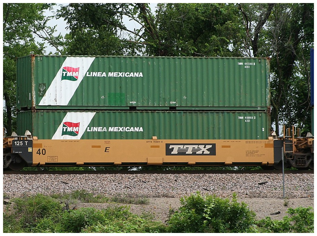 Intermodal shipping containers on a railway flat car.